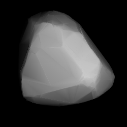 3D convex shape model of 287 Nephthys, computed using light curve inversion techniques. J. Hanuš, J. Ďurech, M. Brož, B. D. Warner (June 2011). "A study of asteroid pole-latitude distribution based on an extended set of shape models derived by the lightcurve inversion method". Astronomy and Astrophysics 530: A134. ISSN 0004-6361. arXiv